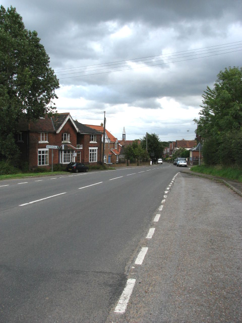 Approaching Melton Constable on B1354 Briston Road, Melton Constable, Norfolk